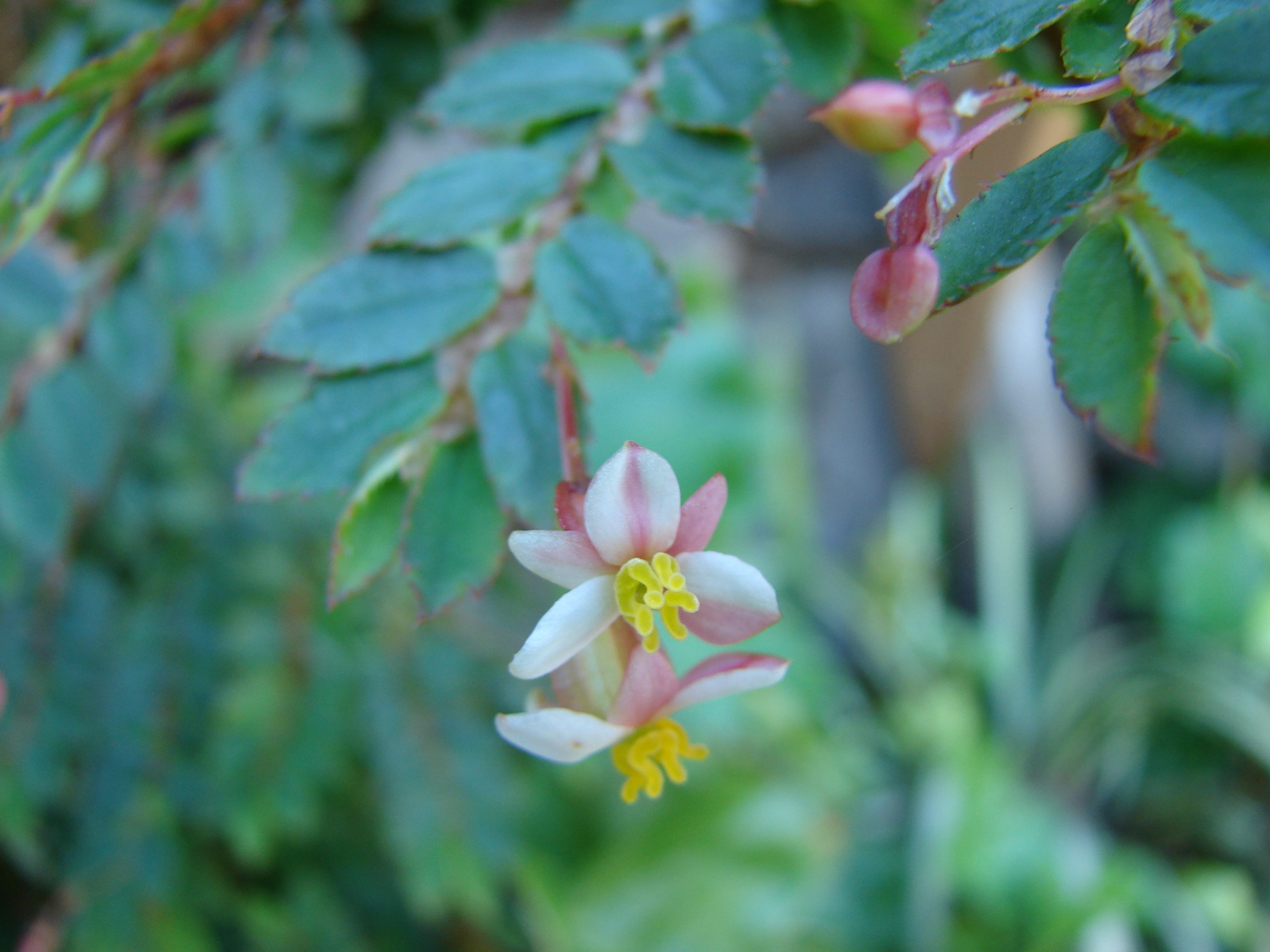 Begonia foliosa (flowers). Location: Maui, Kulalani Dr Kula